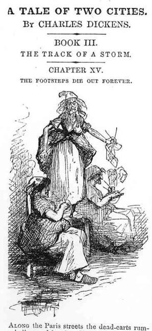 A Tale of Two Cities, illustration by John McLenan, three women knitting before the guillotine. Headnote vignette John McLenan Dickens's A Tale of Two Cities, Book III, chapter 5 ("The Steps Die Out Forever") The thirtieth installment of the novel appeared in Harper's Weekly (3 December 1859): 781; it had originally appeared in the UK on Saturday, 26 November in All the Year Round Passage Illustrated: "The clocks are on the stroke of three, and the furrow ploughed among the populace is turning round, to come on into the place of execution, and end. The ridges thrown to this side and to that, now crumble in and close behind the last plough as it passes on, for all are following to the Guillotine. In front of it, seated in chairs, as in a garden of public diversion, are a number of women, busily knitting. On one of the fore-most chairs, stands The Vengeance, looking about for her friend. "Therese!" she cries, in her shrill tones. "Who has seen her? Thérèse Defarge!""